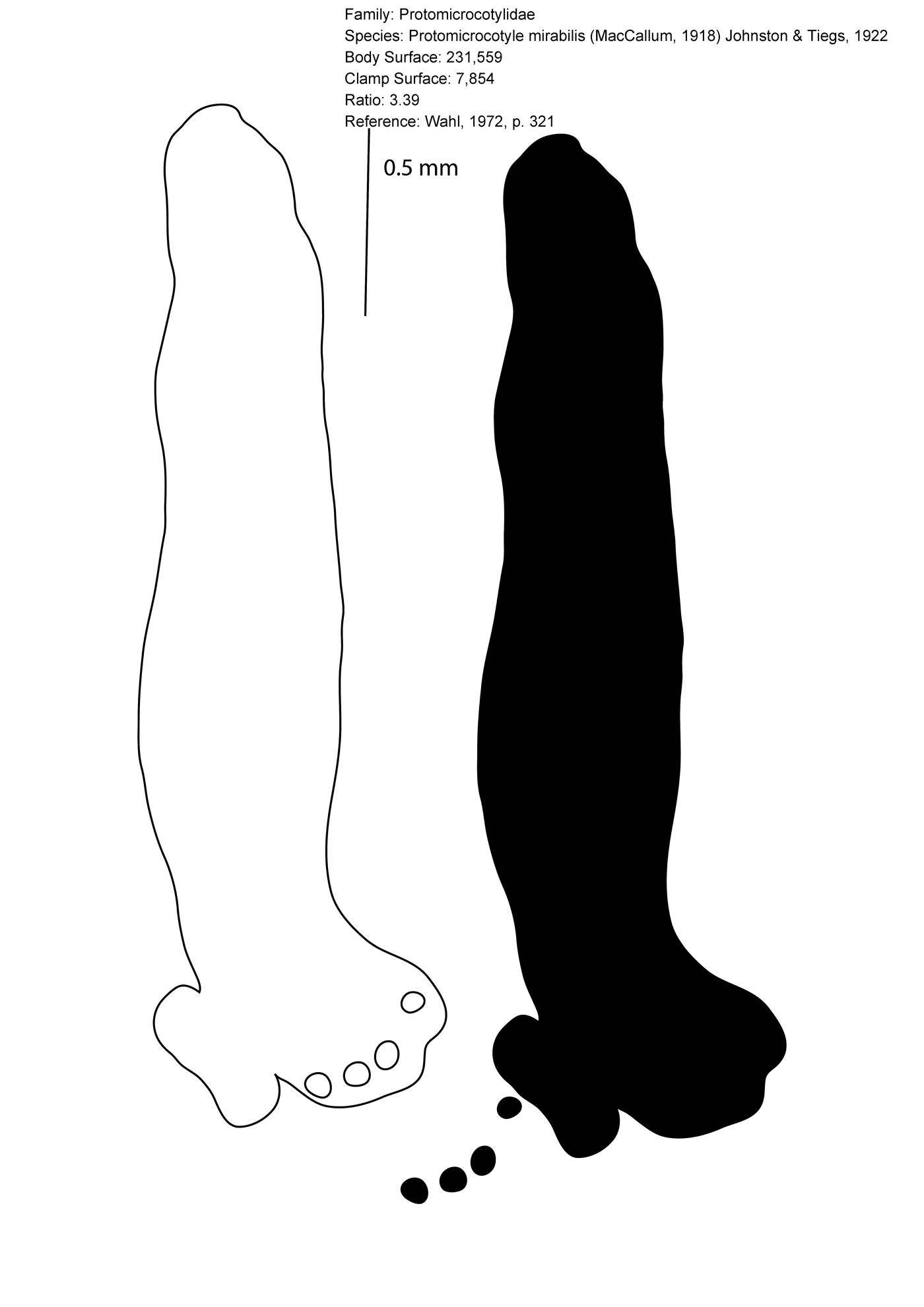 Protomicrocotyle mirabilis (MacCallum, 1918) Johnston & Tiegs, 1922 Protomicrocotylidae Cropped from: Supporting Information file S1 PDF of all figures and measurements of clamp and body surfaces. Total number of figures: 120.